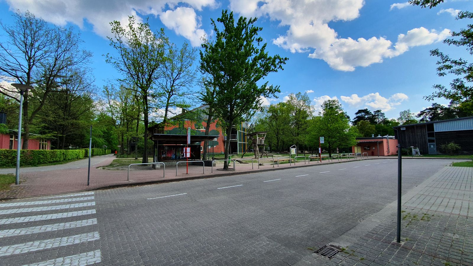 Waldorfschule Kakenstorf